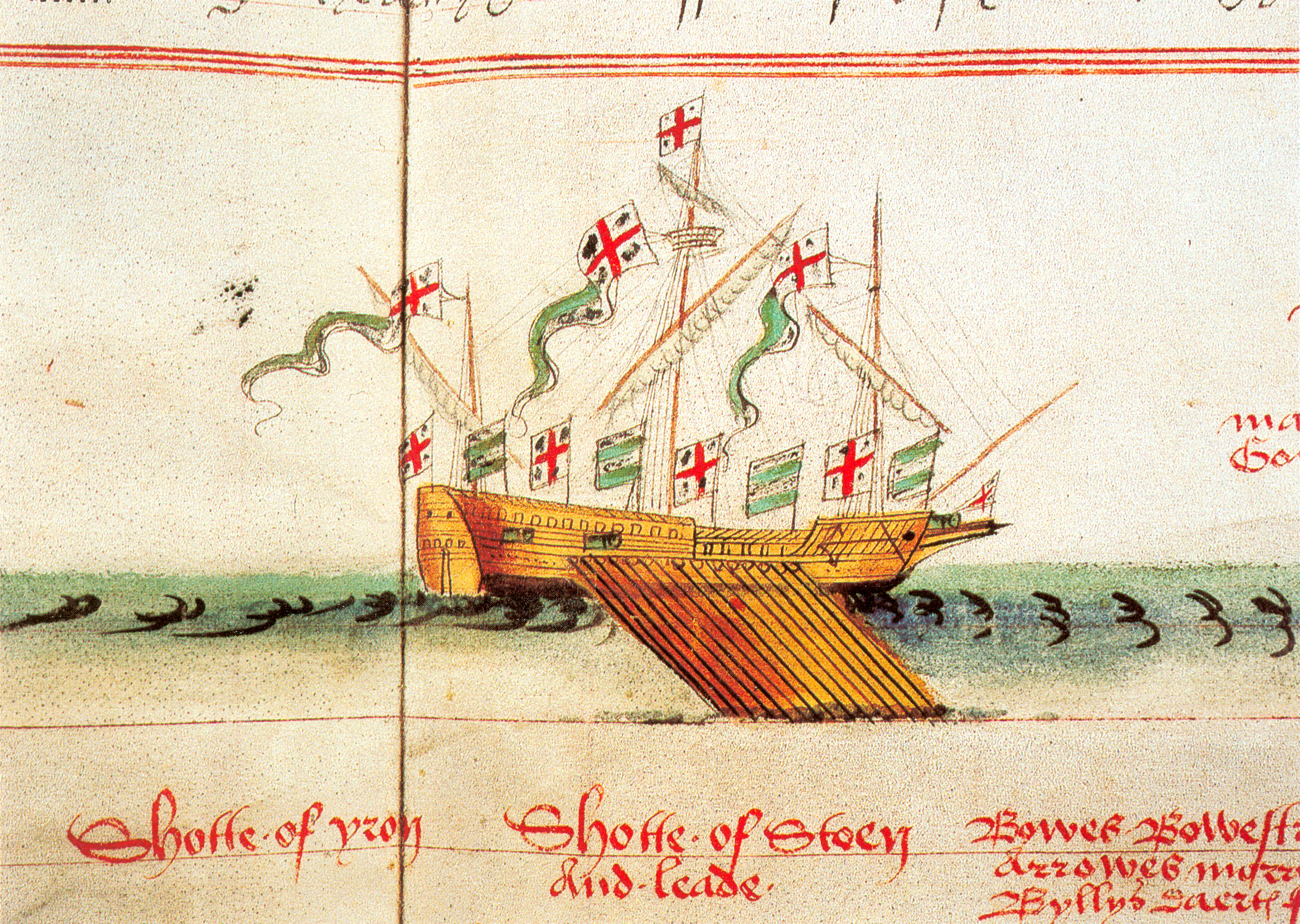 Illustration of the rowbarge Double Rose. Notification about possible deletion Cathsuth (talk) 16:20, 9 February 2017 (UTC)